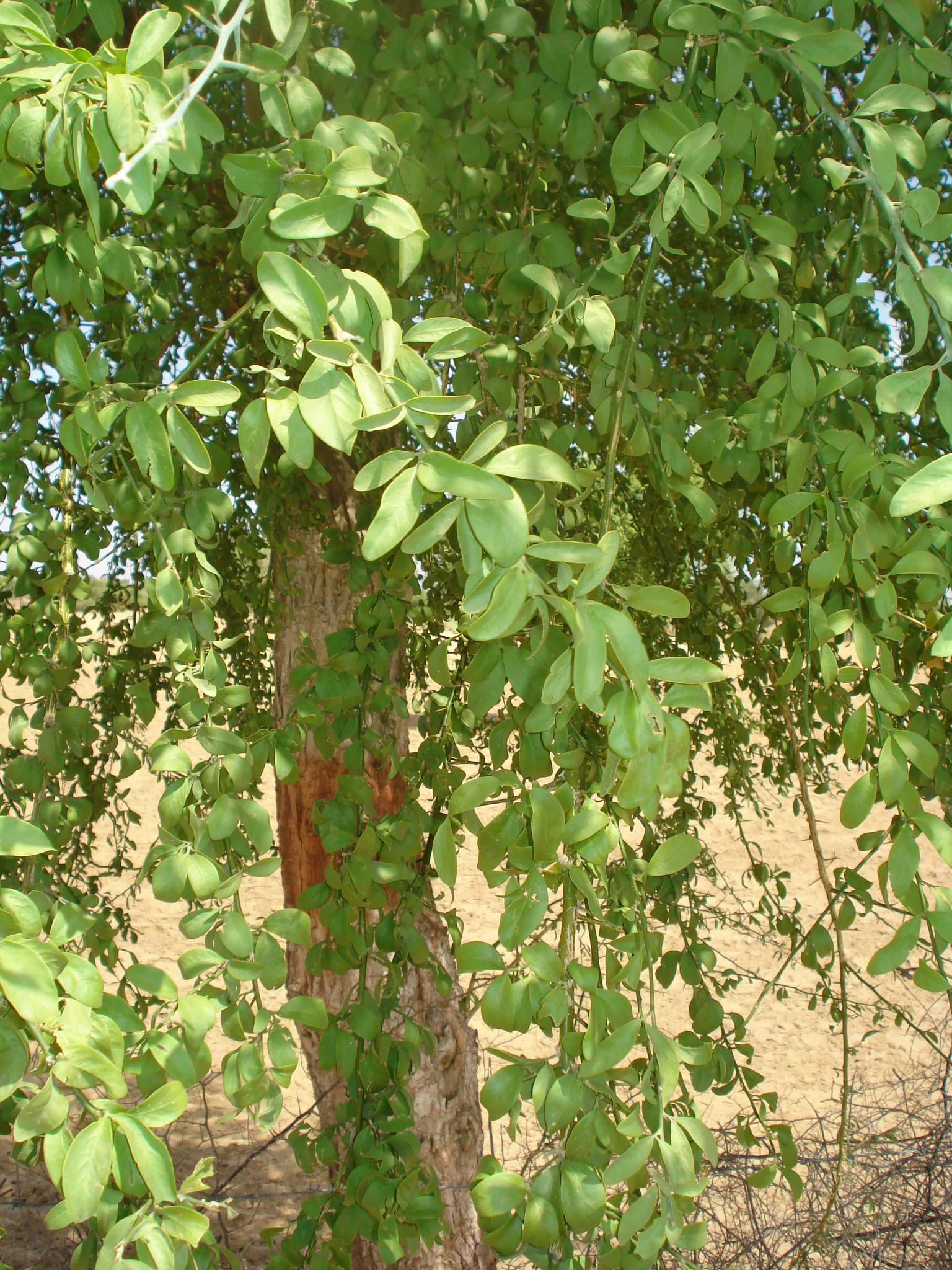 Balanites roxburghii tree located in village Thathawata district Churu in Rajasthan, India